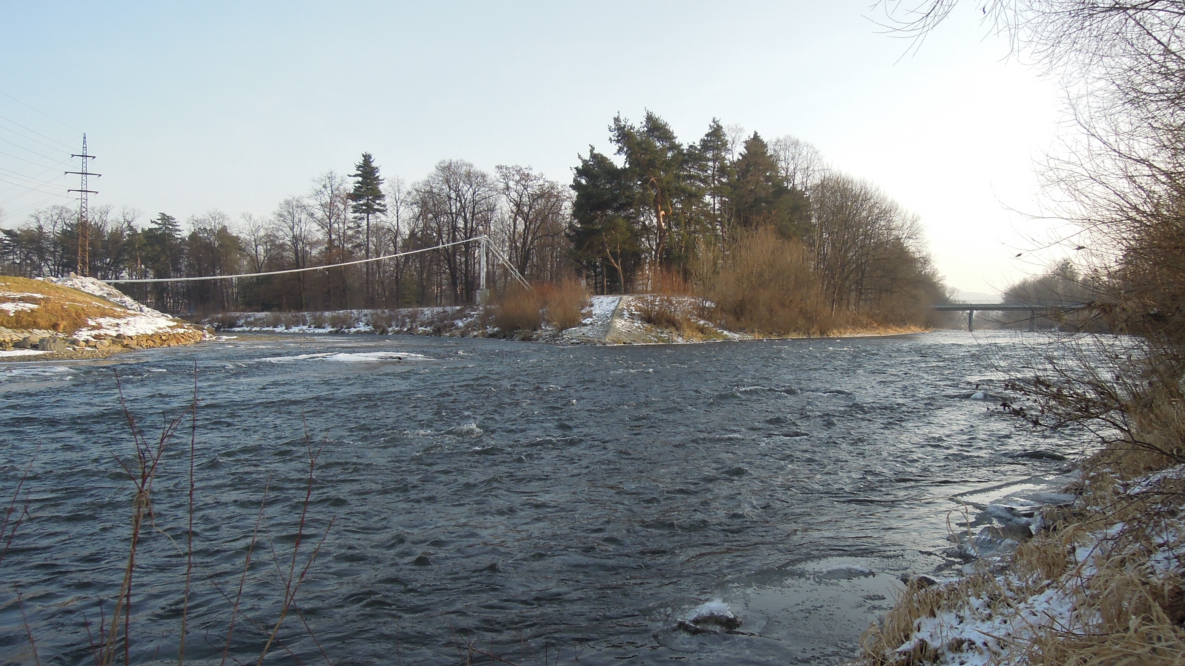 Confluence of Rožnovská Bečva river and Vsetínská Bečva river in Valašské Meziříčí, Vsetín District, Zlín Region, Czech Republic